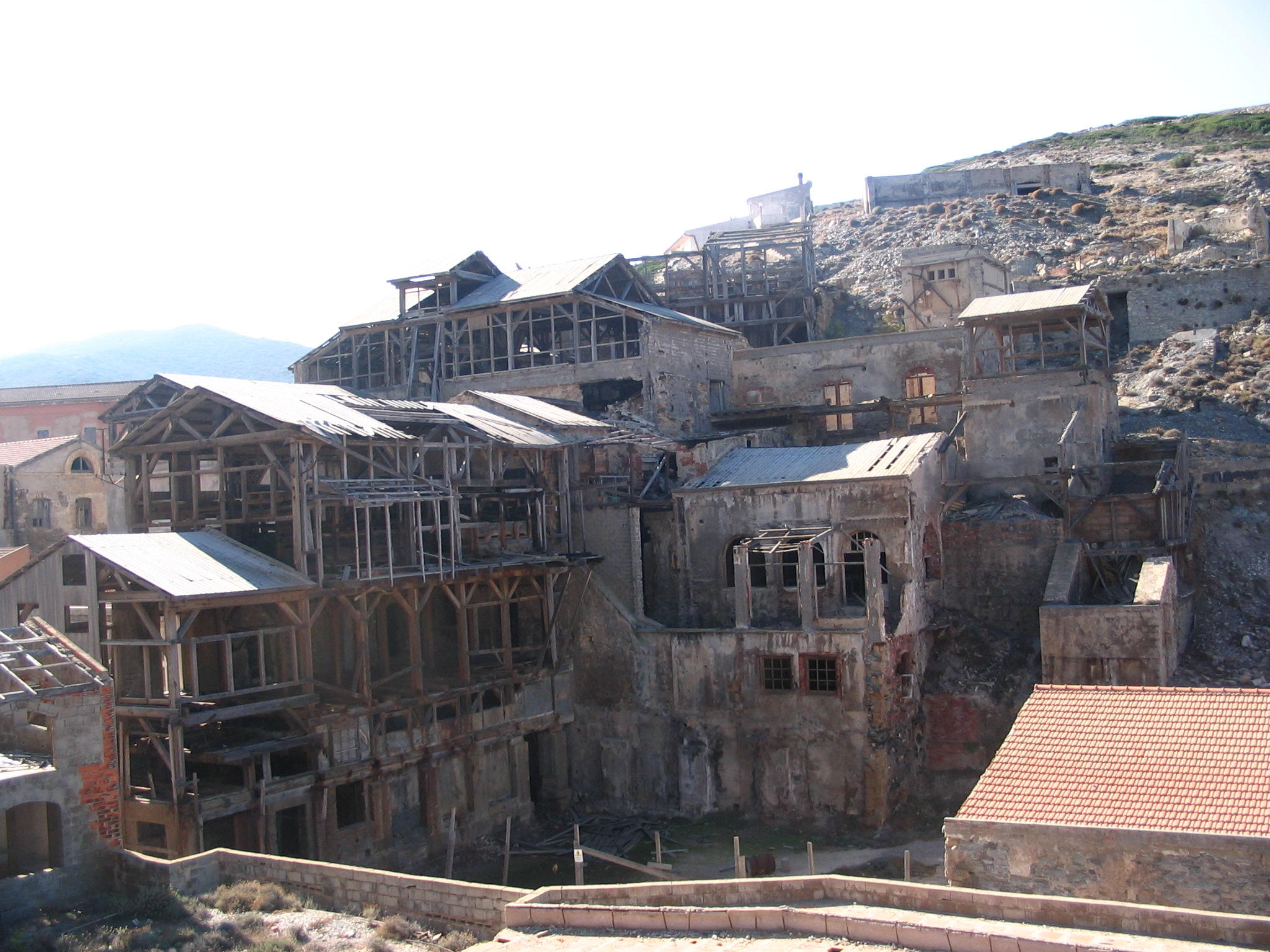 The main ruines in Argentiera